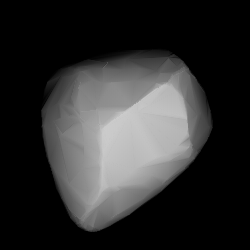 3D convex shape model of 1310 Villigera, computed using light curve inversion techniques. J. Hanuš, J. Ďurech, M. Brož, B. D. Warner (June 2011). "A study of asteroid pole-latitude distribution based on an extended set of shape models derived by the lightcurve inversion method". Astronomy and Astrophysics 530: A134. ISSN 0004-6361. arXiv